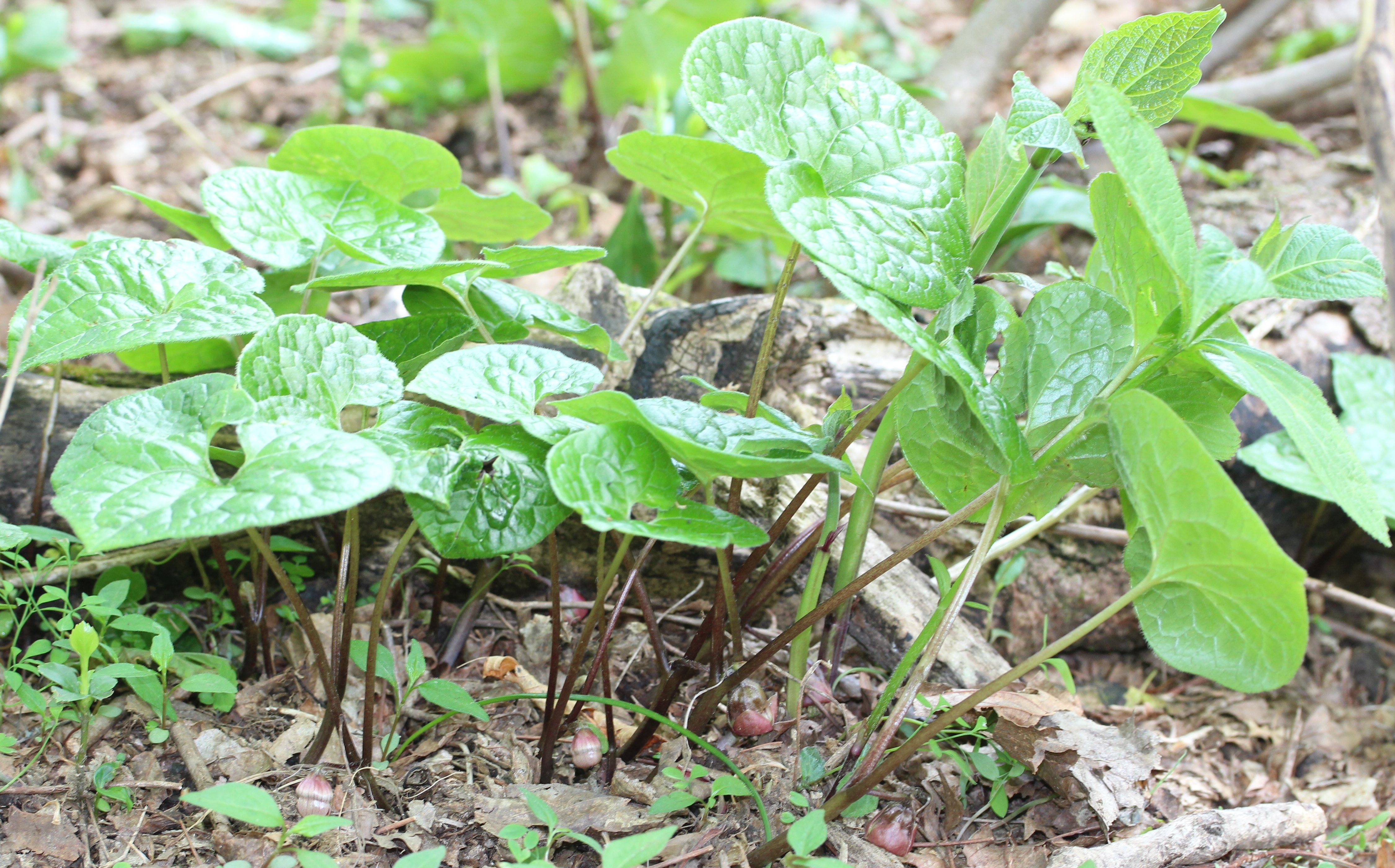 Asarum caulescens in Mount Ibuki